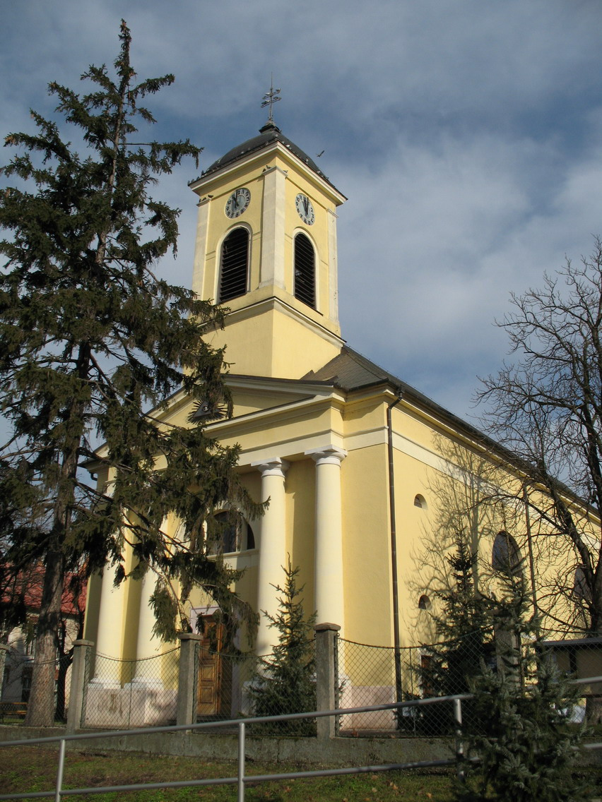 Photo of church in Šaľa